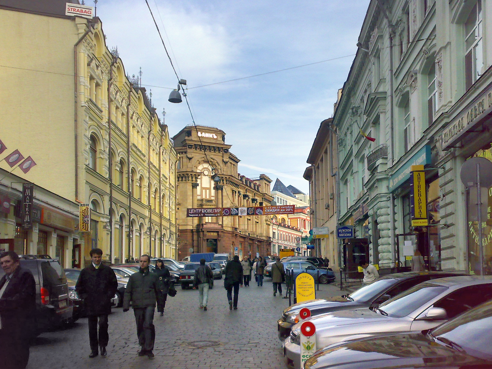 took this image using my mobile phone, in late October, 2008. Looking up Kuznetsky Most Street from the crossing with Neglinnaya Street (not in pic.), central Moscow, Russia.